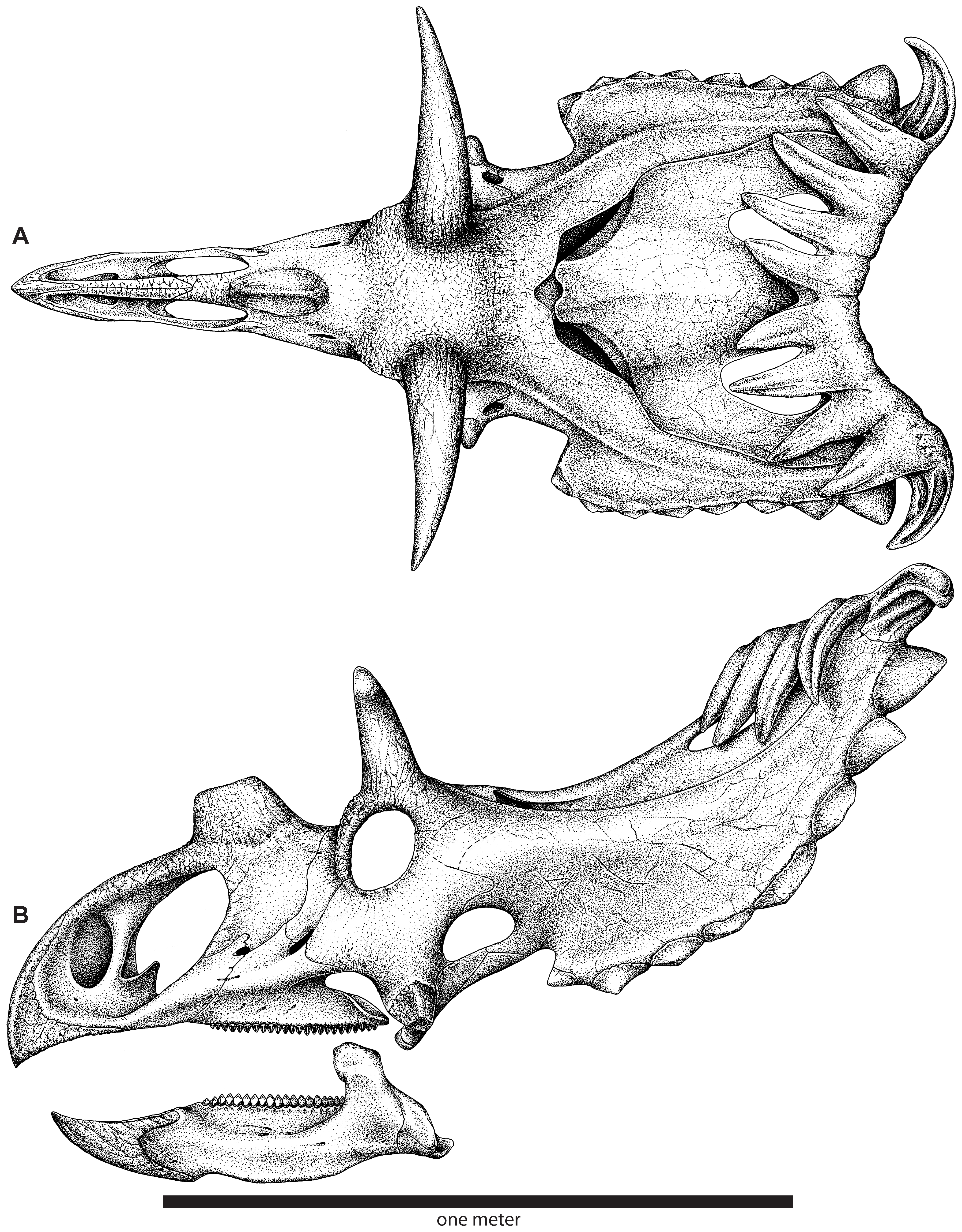 Skull reconstruction of Kosmoceratops richardsoni n. gen. et n. sp. In dorsal (A) and lateral (B) views.